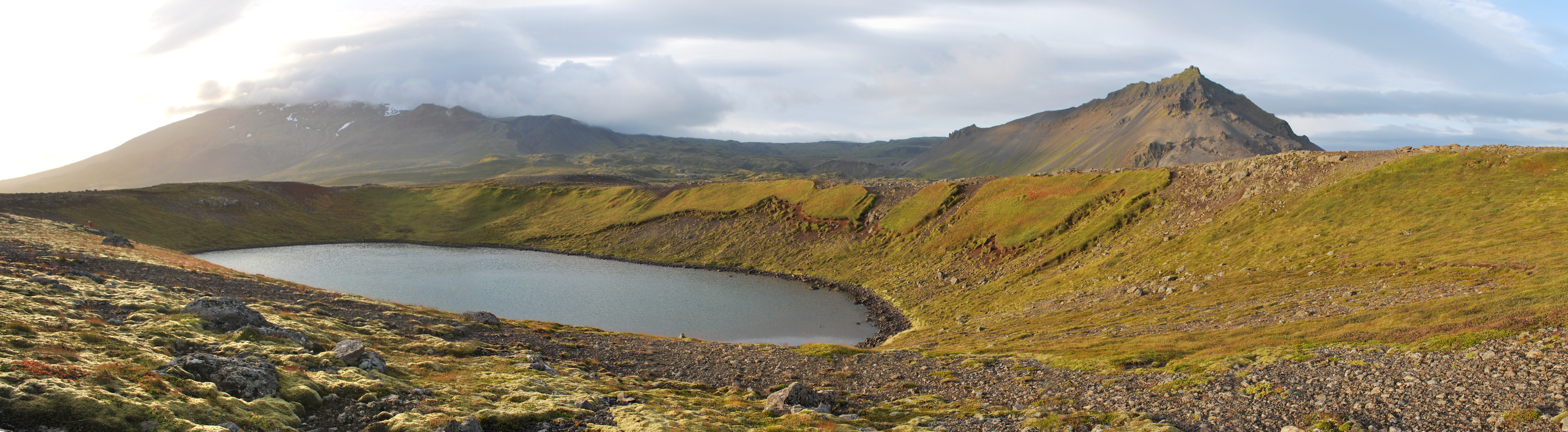 Crater lake Bardarlaug forming via volcanic explosion in Snæfellsnes area, Iceland - Google Maps - Google Earth